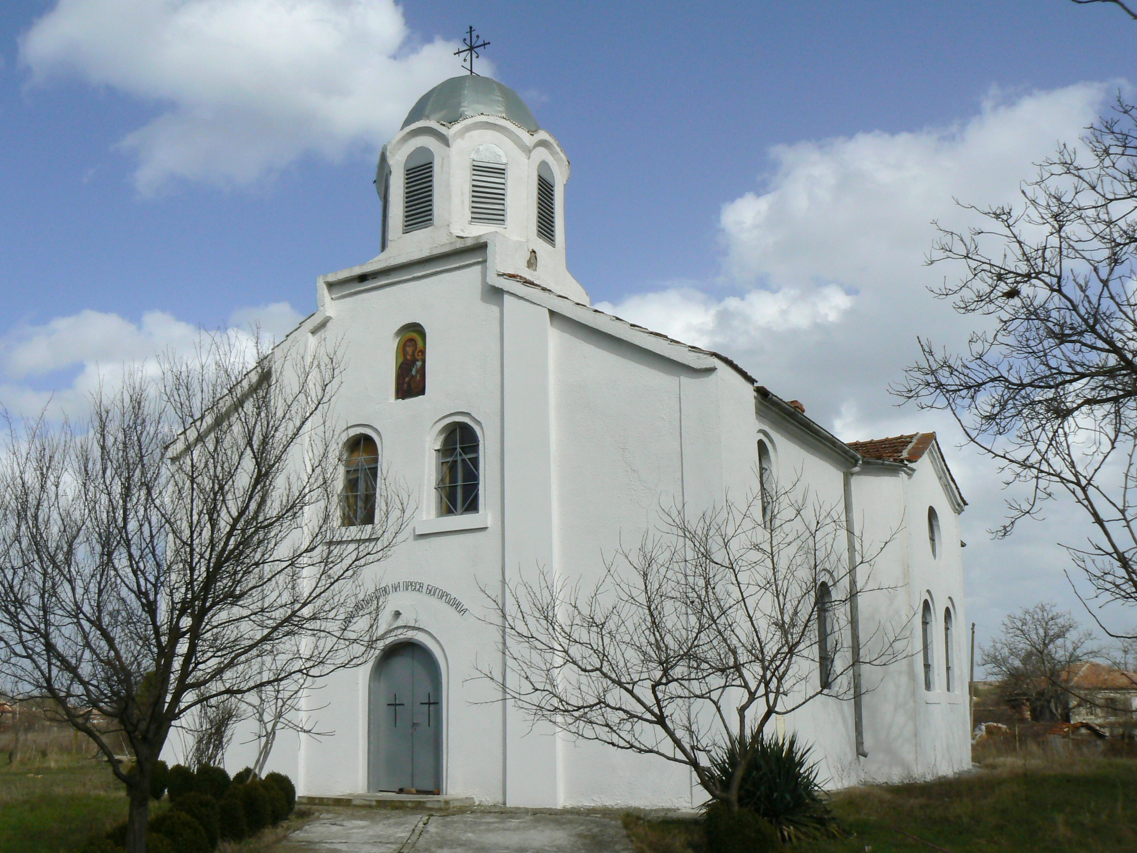 The church of village Rusokastro, Burgas District, Bulgaria